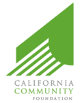 Logo for the California Community Foundation